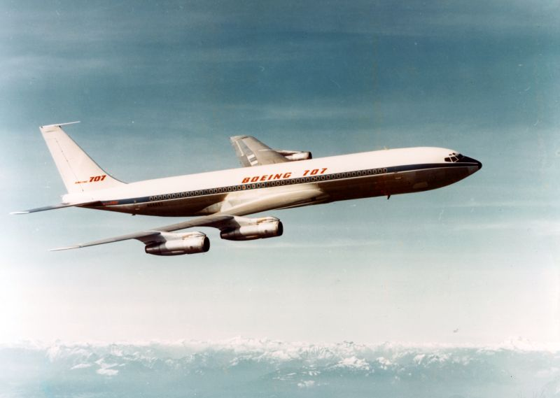 Please tag this photo so information can be saved. .Note: This material may be protected by Copyright Law (Title 17 U.S.C.)--Repository: San Diego Air and Space Museum